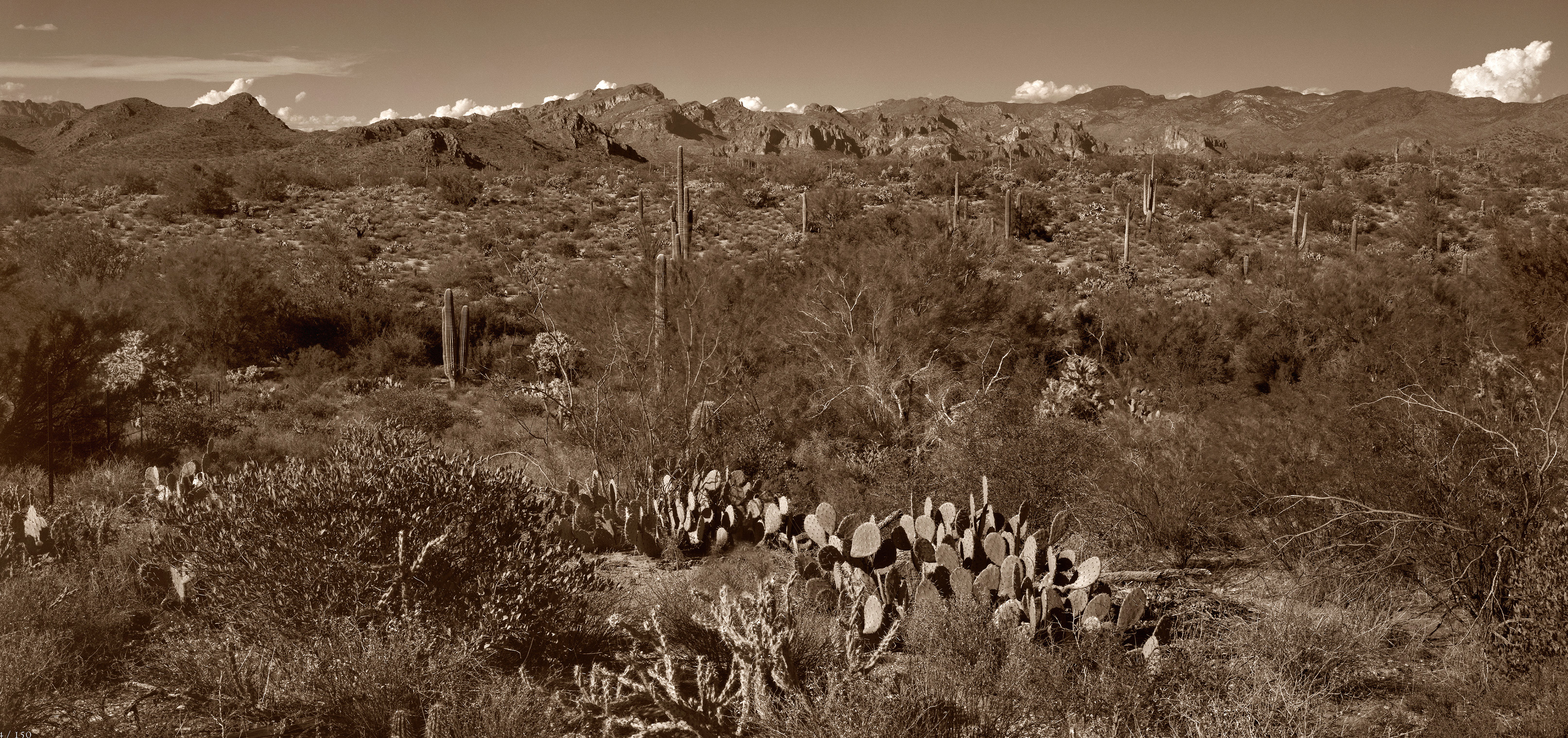 Superstition Mountains From Route 60